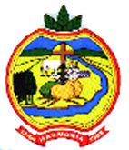 Coat of arm of Harmonia, Rio Grande do Sul, Brasil.